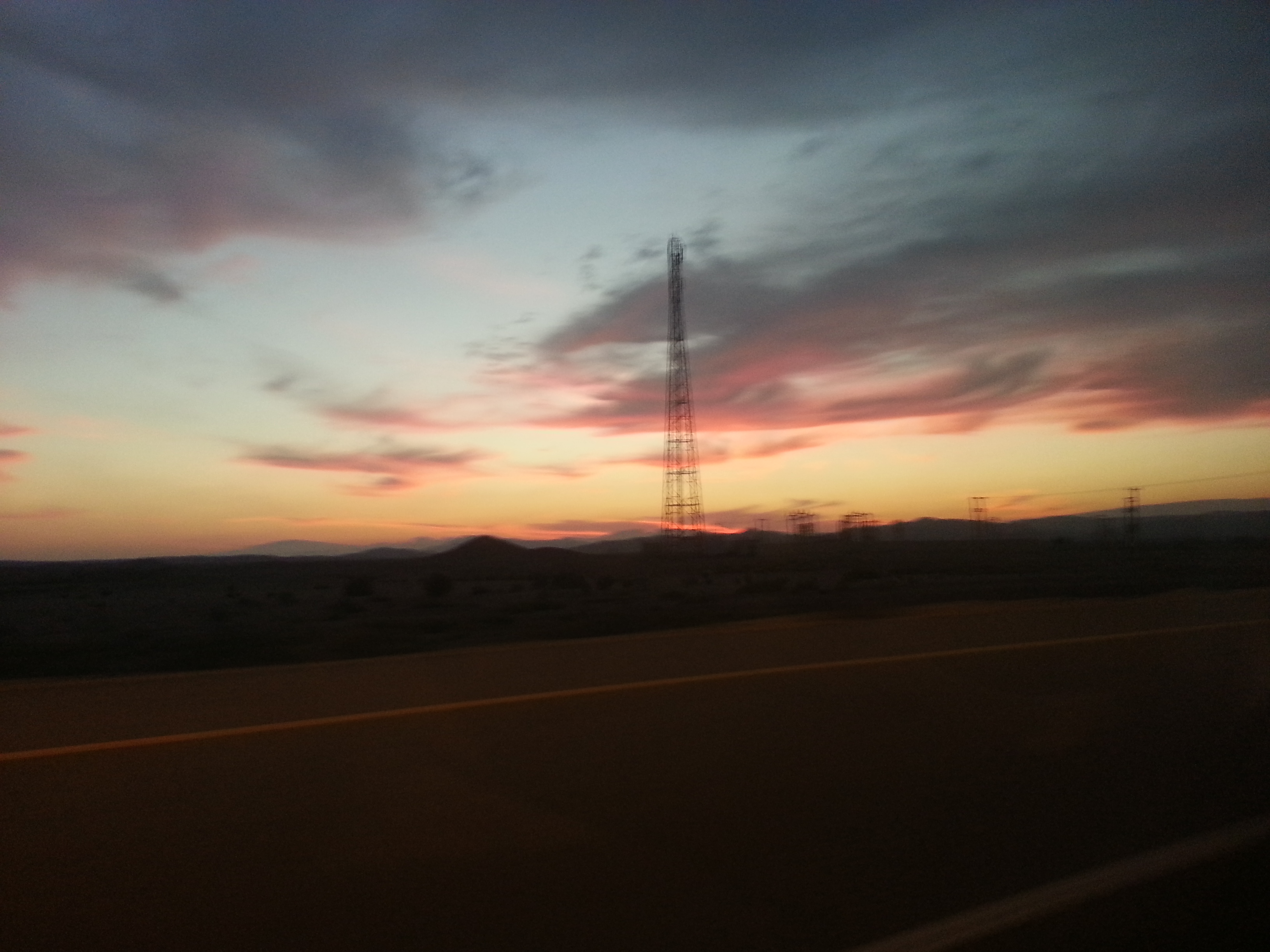 منظرللغروب